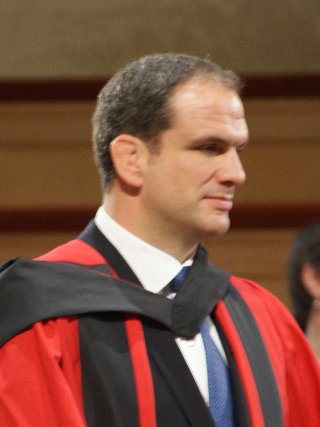 Martin Johnson receives honourary doctorate from Leicester University.